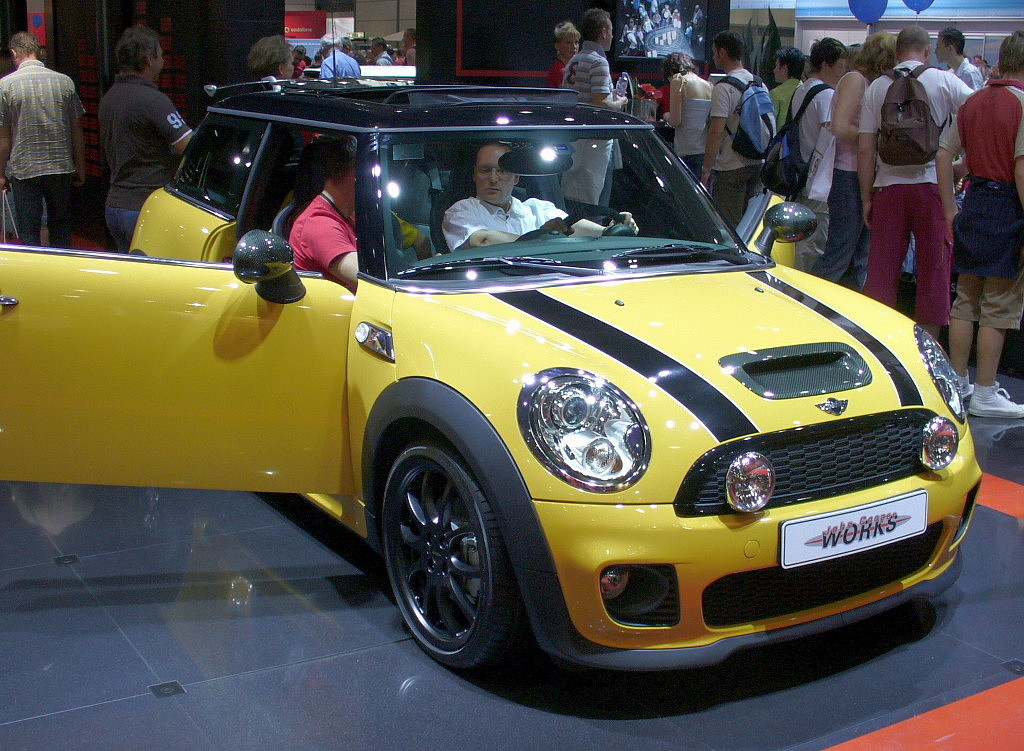 Mini Cooper S John Cooper Works-Kit